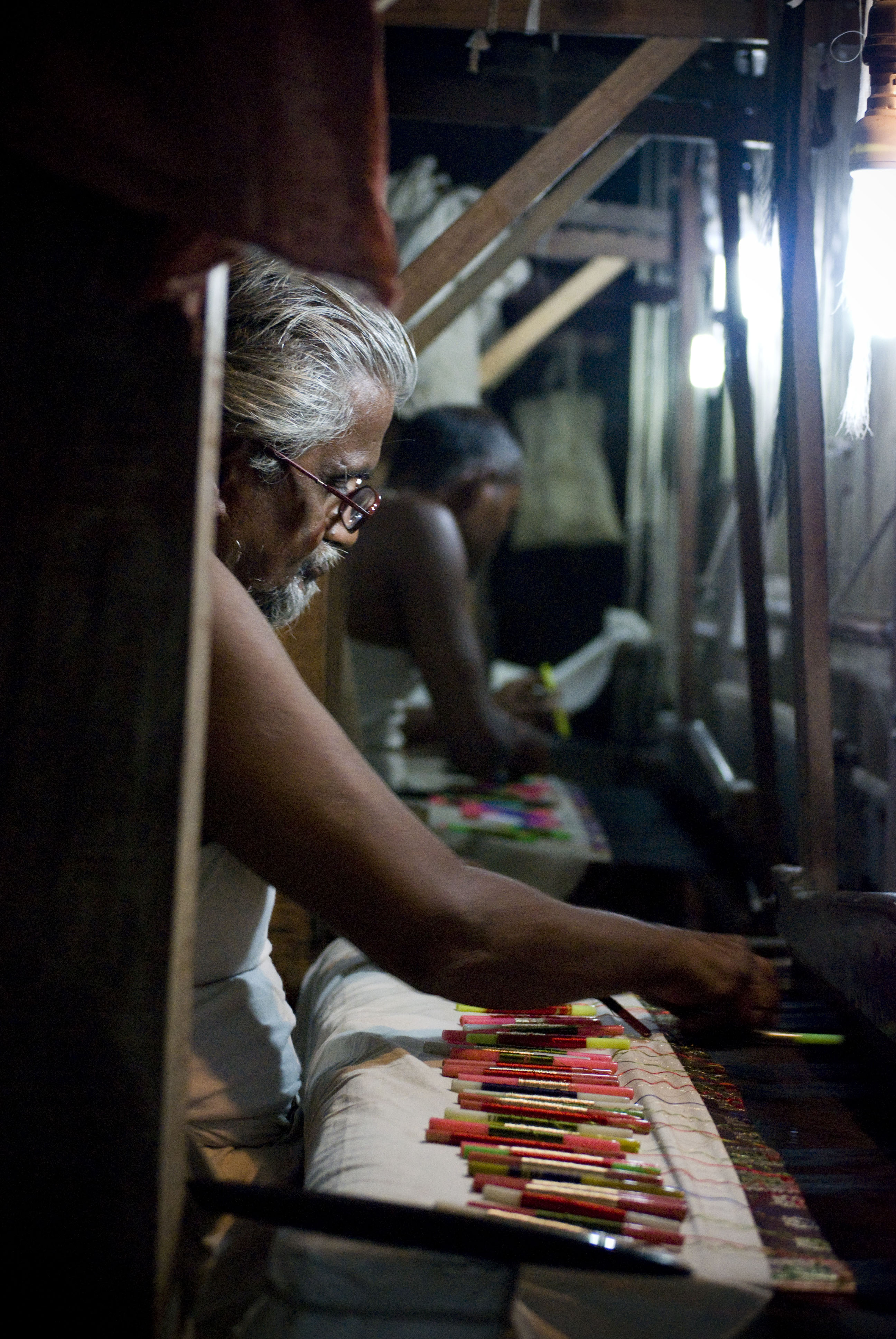 Woven on a hand loom. A sari can take two months to make in this manner.